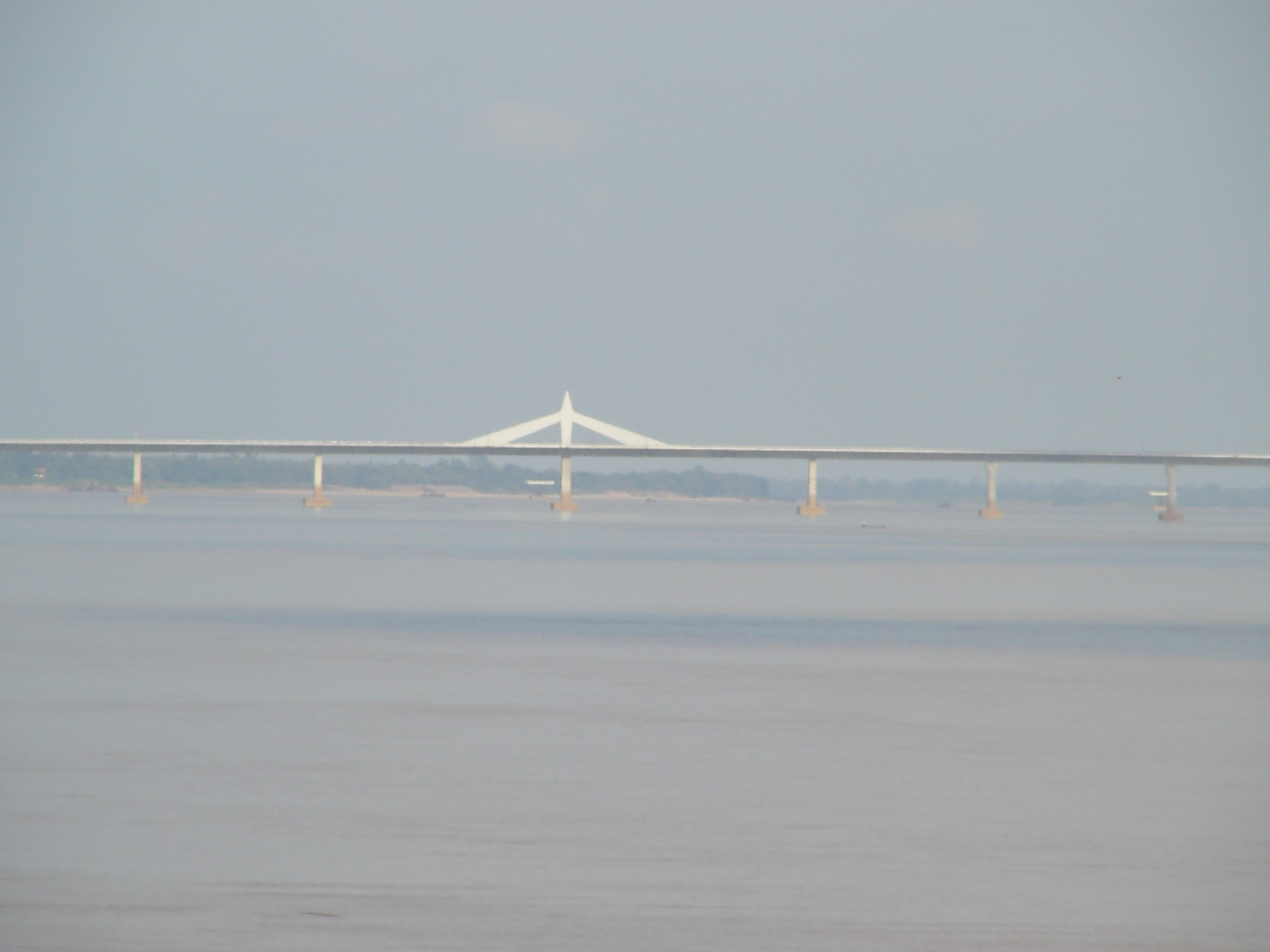 Mukdahan Friendship Bridge II as seen from Mukdahan's Indochina Market